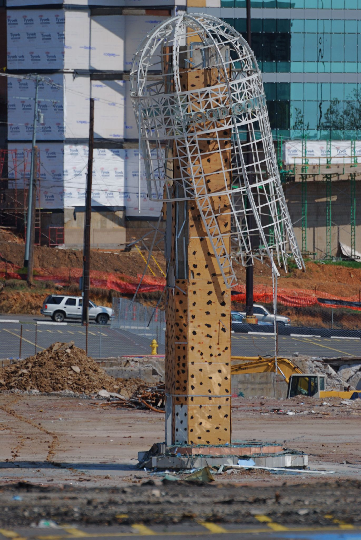 All that was left of University Mall, a once great and popular mall in the Little Rock MidTowne area.